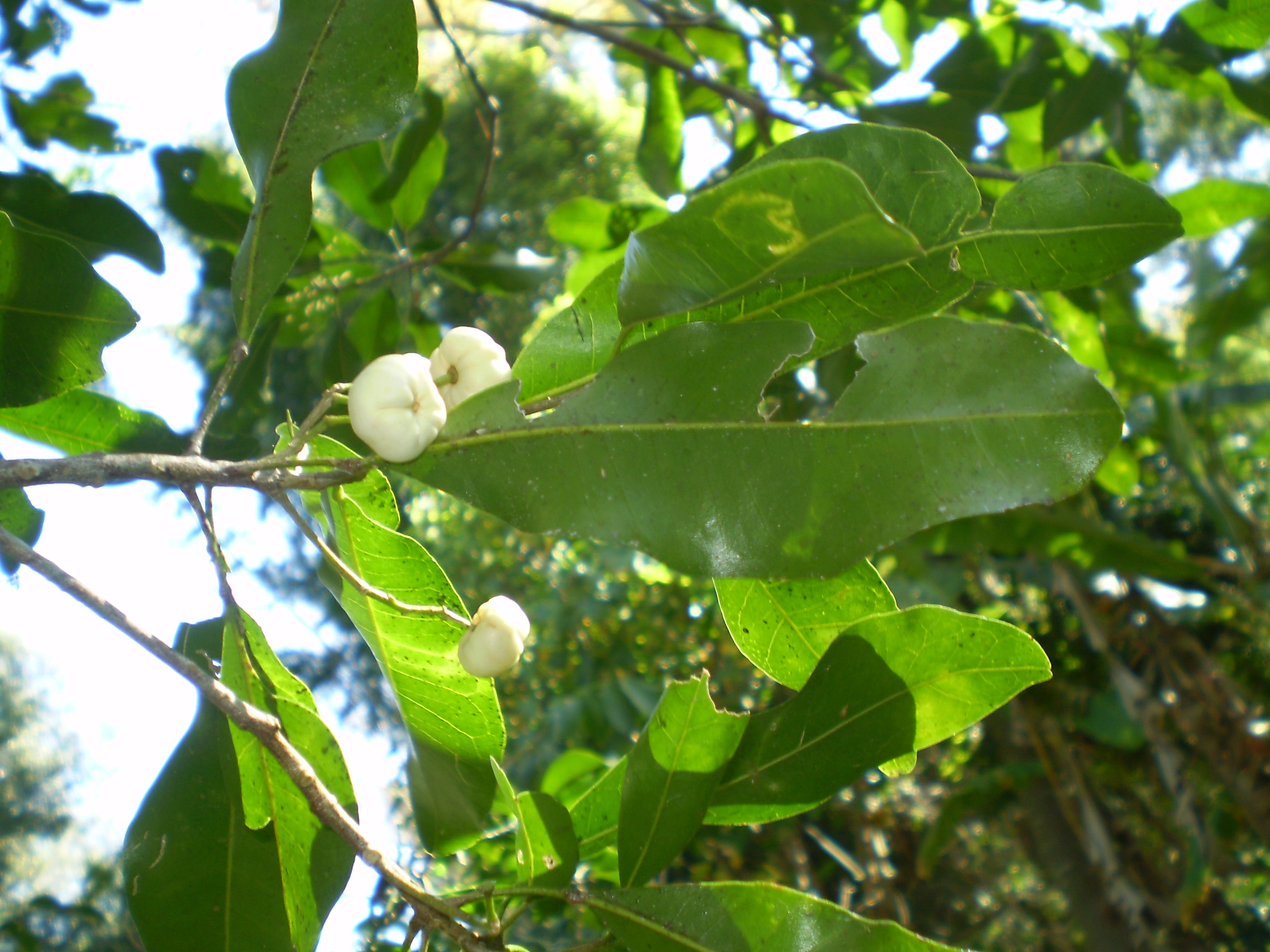 Acronychia oblongifolia, leaf and fruit, 'White Aspen', Northern New South Wales, Australia.